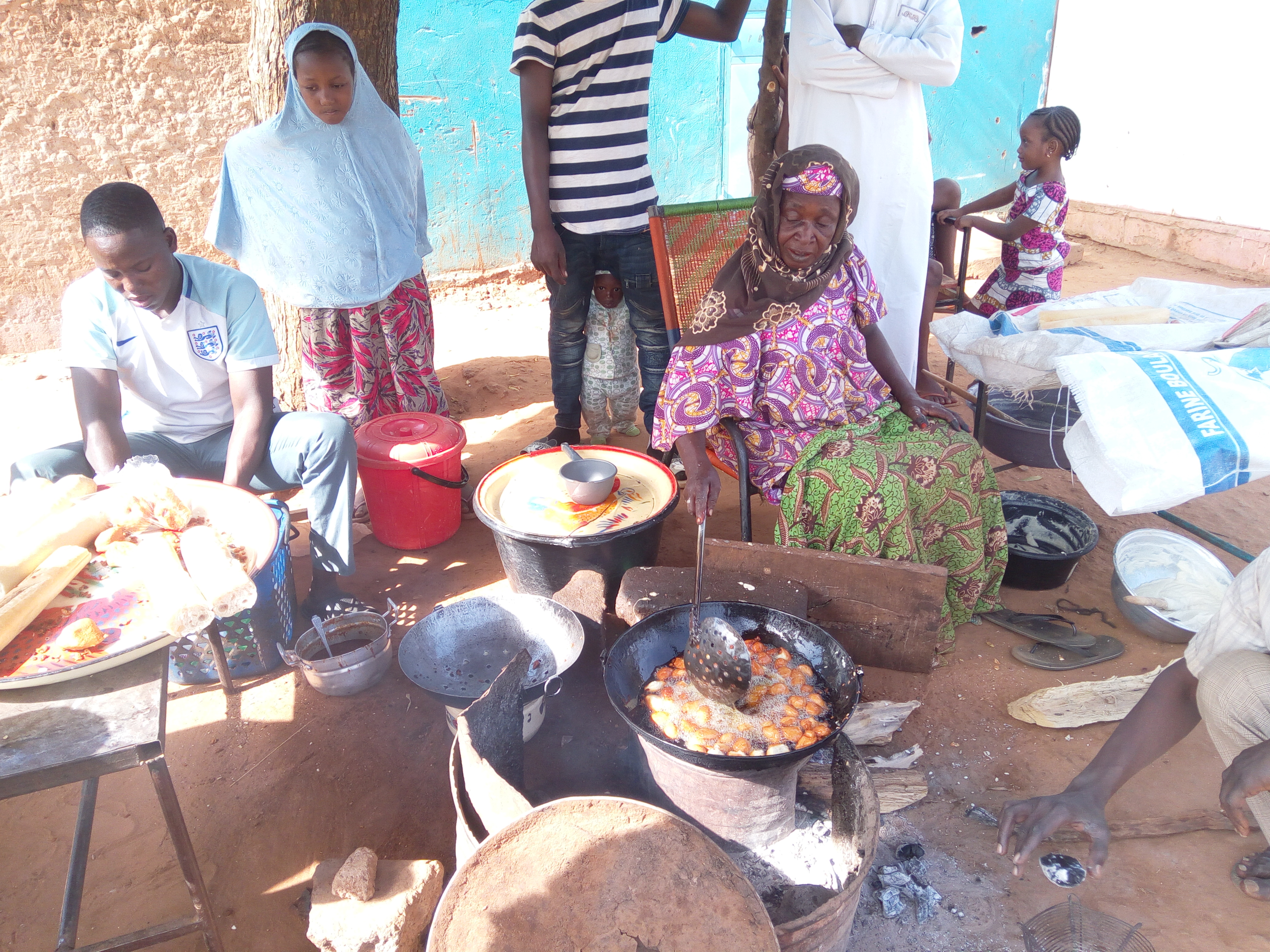 Cette femme de la soixantaine d'années vend des beignets depuis près de 20ans. C'est avec ce métier qu'elle subvient à ses besoins et celui de sa famille. This is an image of "African people at work" from Niger